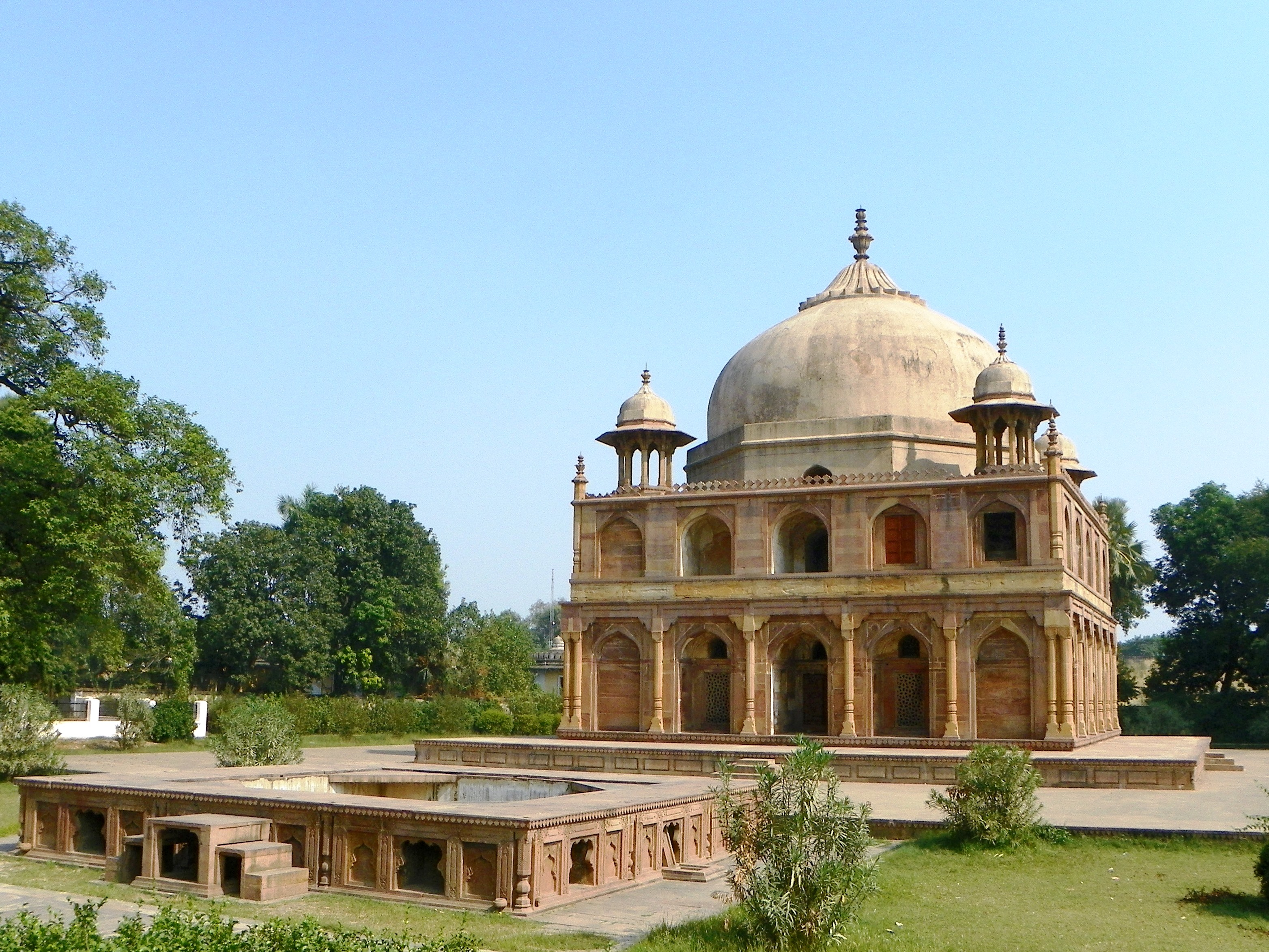 Khusru Bagh: Tomb of Sultan Khusru